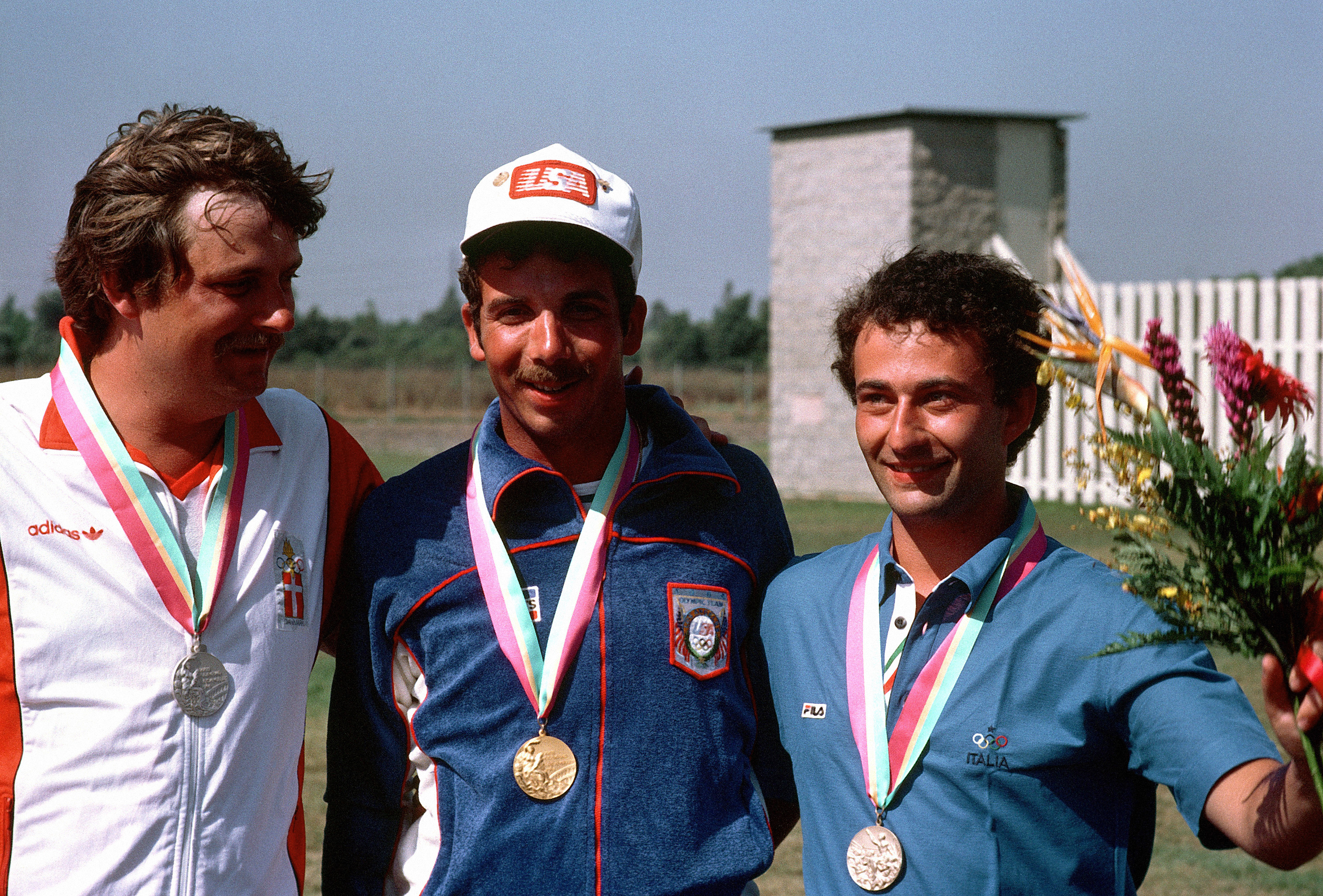 Matthew Dryke, center, stands with the silver and bronze medal winners after having received a gold medal in the skeet shooting competition at the 1984 Summer Olympics.